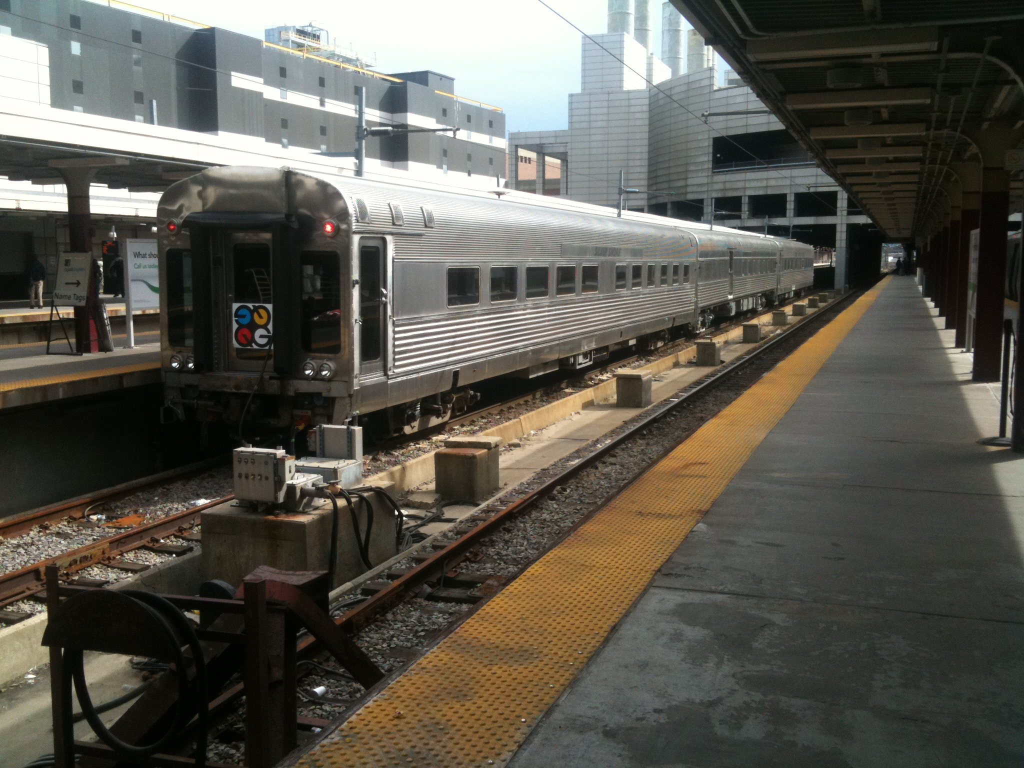 Private rail car Silver Shore at South Station, Boston